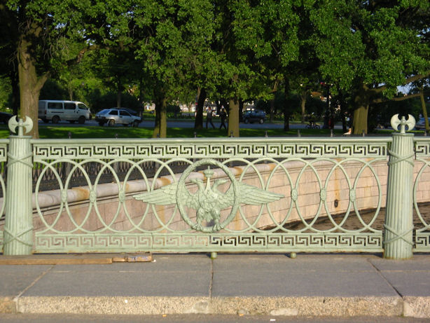 Ioannovsky Bridge over Kronwerk (Peter and Paul Fortress)